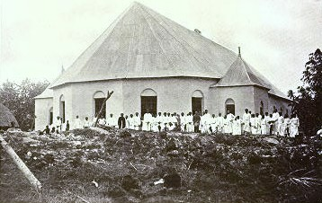 A large stone church (Methodist) in Satupa'itea on Savai'i island, Samoa circa 1908.